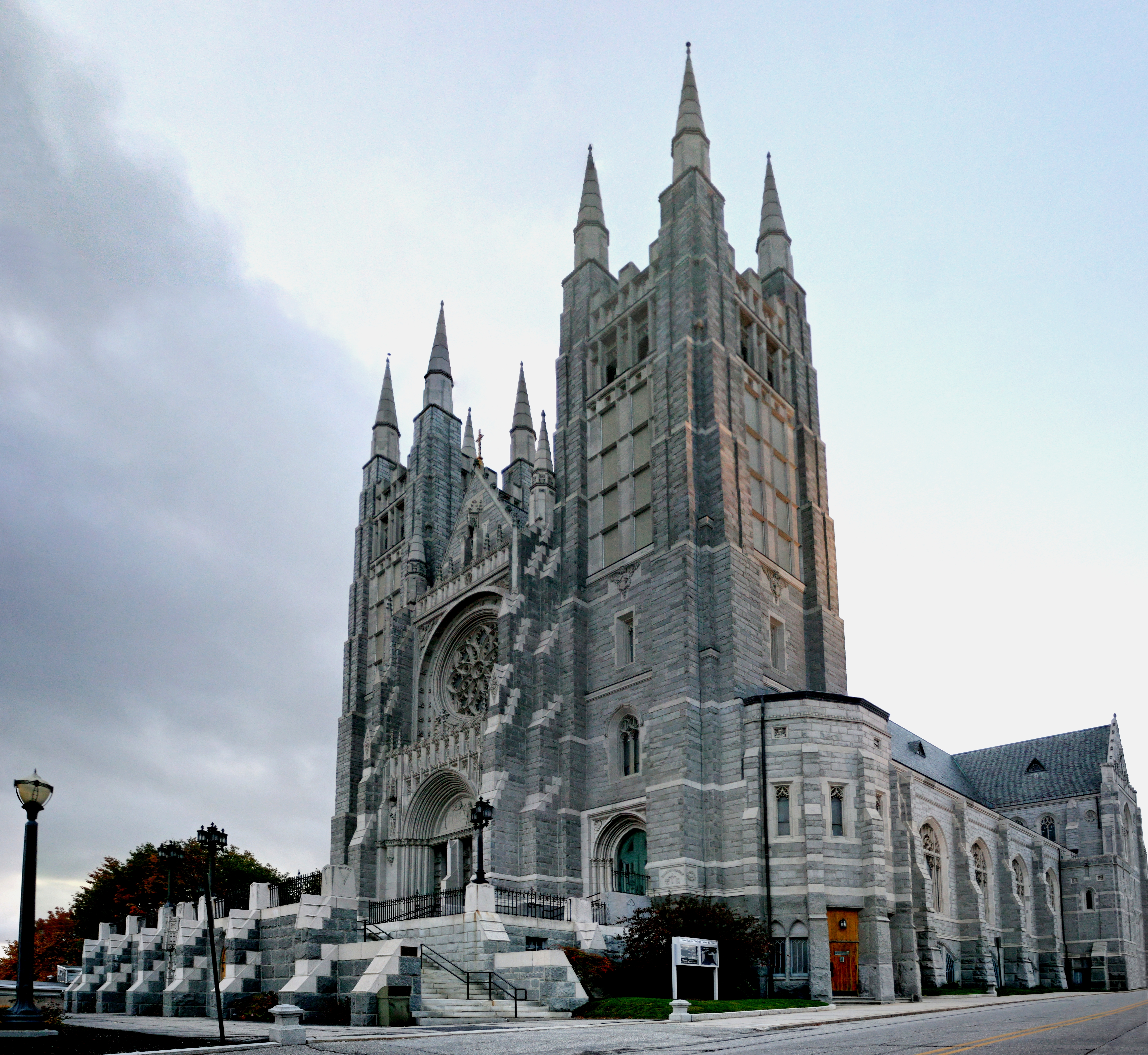 The Basilica of Saints Peter and Paul is a church located in Lewiston, Maine, and is part of the Roman Catholic Diocese of Portland.